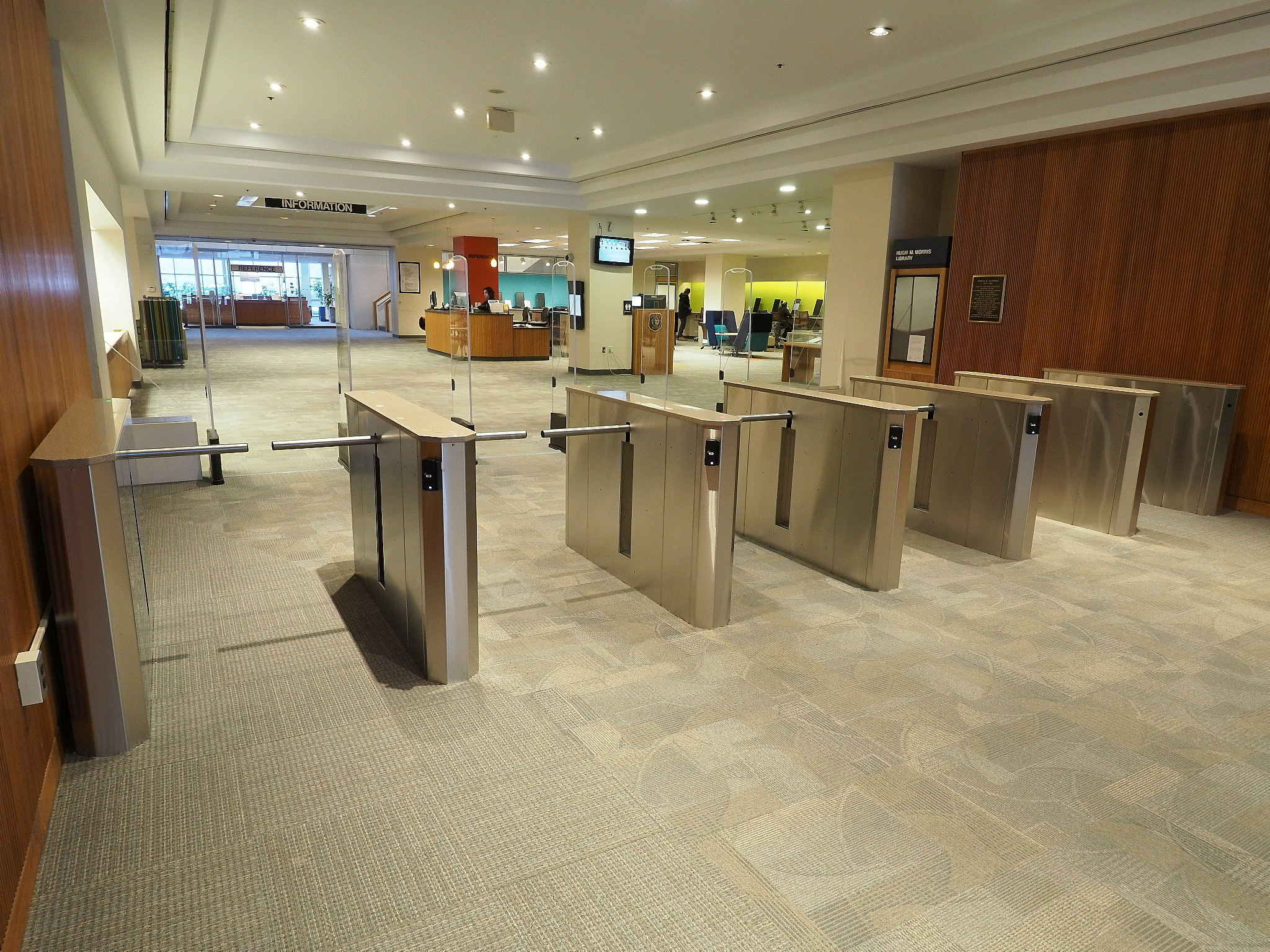 Space Saver Drop Arm Turnstiles in a University Library manufactured by Q-Lane Turnstiles LLC.